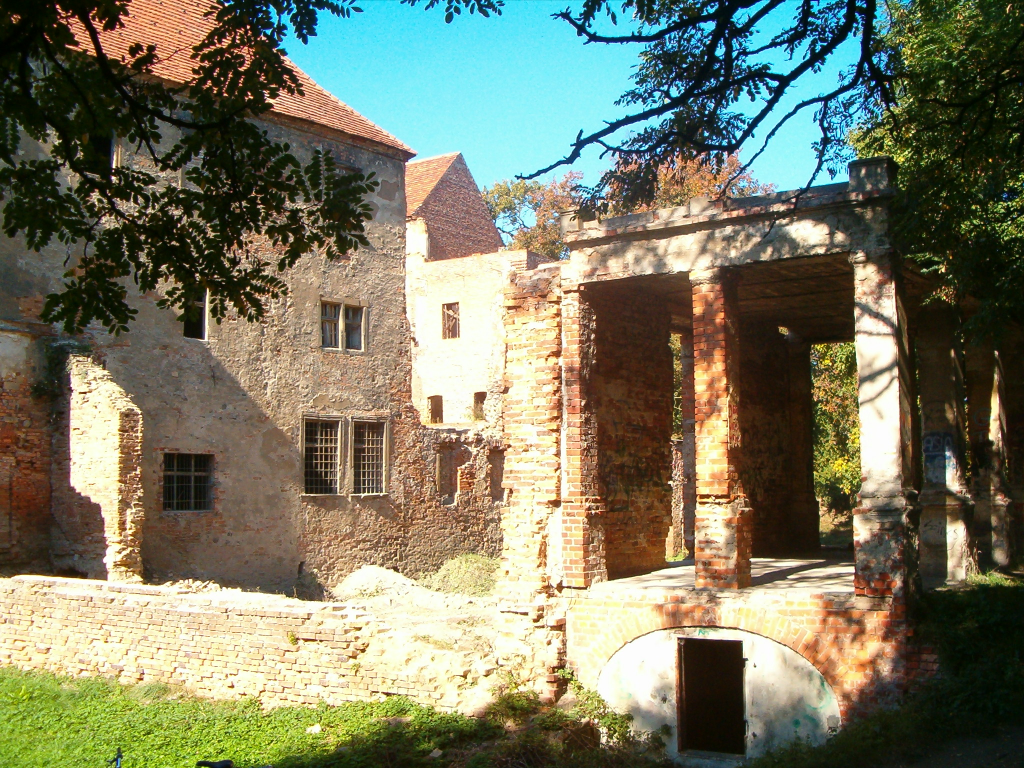 Ruins of a castle in Prochowice, Poland